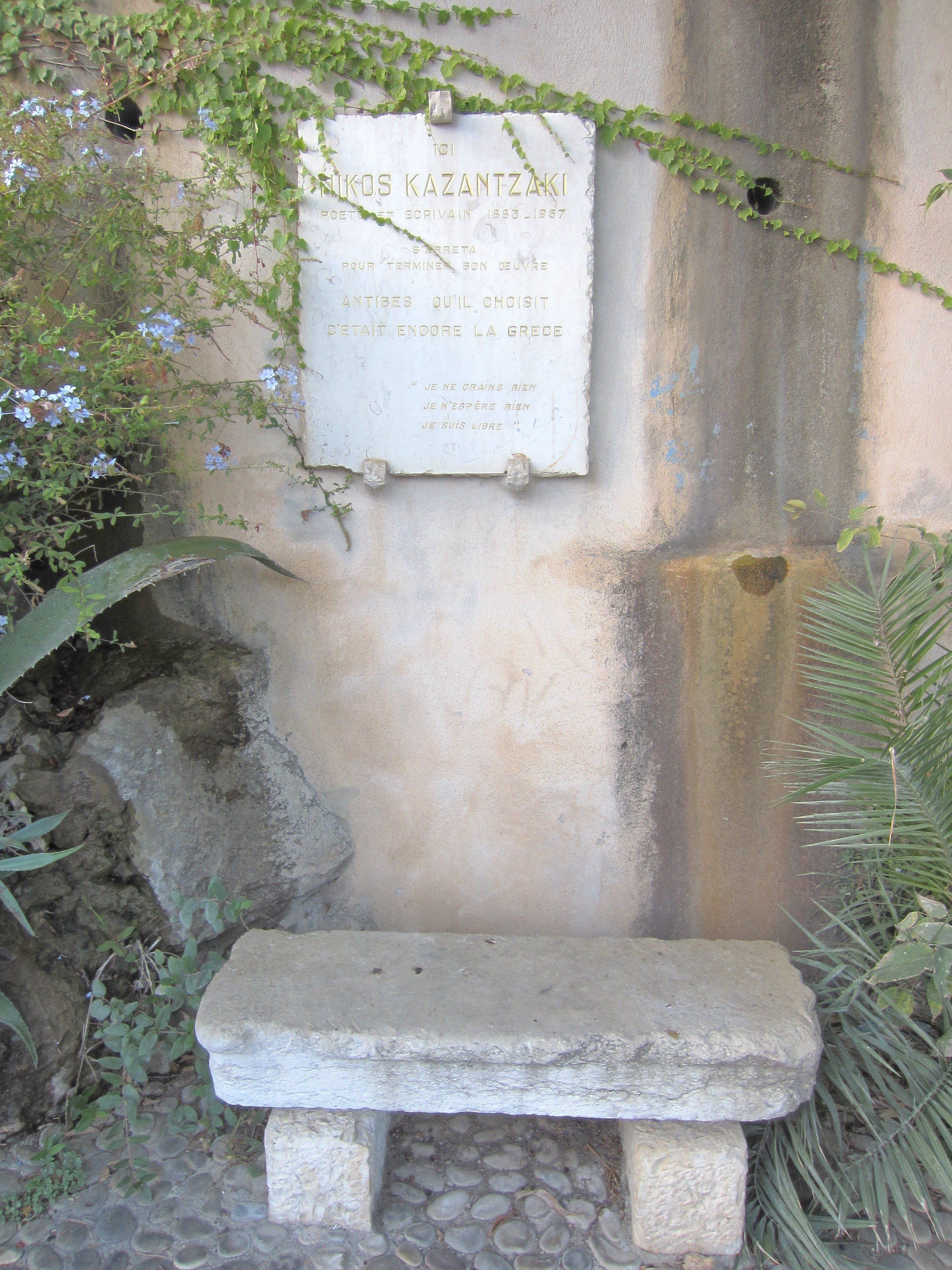 Description plaque nikos kazantzakis Antibes Date22 October 2011Sourcemon appareil photoAuthorAimelaimePermission(Reusing this file) plaque nikos kazantzakis Antibes